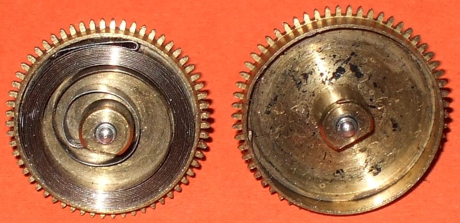 Mainspring barrel of a watch, disassembled, showing the mainspring. When the owner winds the watch, the arbor at the center that the mainspring is attached to rotates, winding the spring closer around it, storing energy in the spring. The outside of the spring is attached to the barrel and the force of the wound-up spring turns the barrel. The ring of gear teeth on the barrel turns the watch's gear train. The mainspring is hooked to the barrel and arbor by tabs, so it is easy to replace if it breaks. WARNING - Do not disassemble a watch or clock containing a mainspring without the proper tools. The mainspring contains a lot of energy and can release suddenly, causing serious injury.